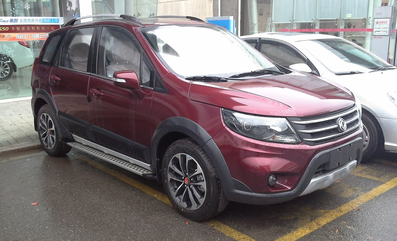 Dongfeng Fengxing Jingyi X5 photographed in Shanghai, China.